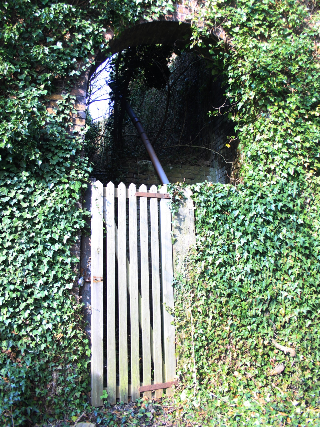 The entrance to the first Maidenhead railway station, which was actually at Taplow as it was the temporary terminus of the Great Western Railway until the Maidenhead Bridge was build across the River Thames a little further west.